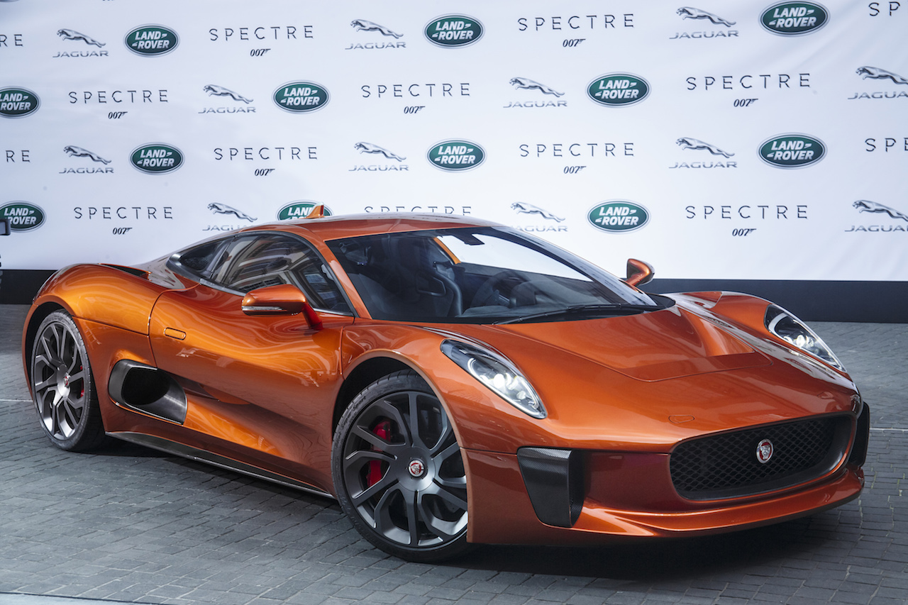 Jaguar Land Rover celebrated their vehicles appearing in the new Bond adventure, SPECTRE. Cars, including the Jaguar C-X75, Range Rover Sport SVR and the iconic Land Rover Defender, stole the show as they were unveiled in public for the first time at the palatial Thurn und Taxis in Frankfurt.